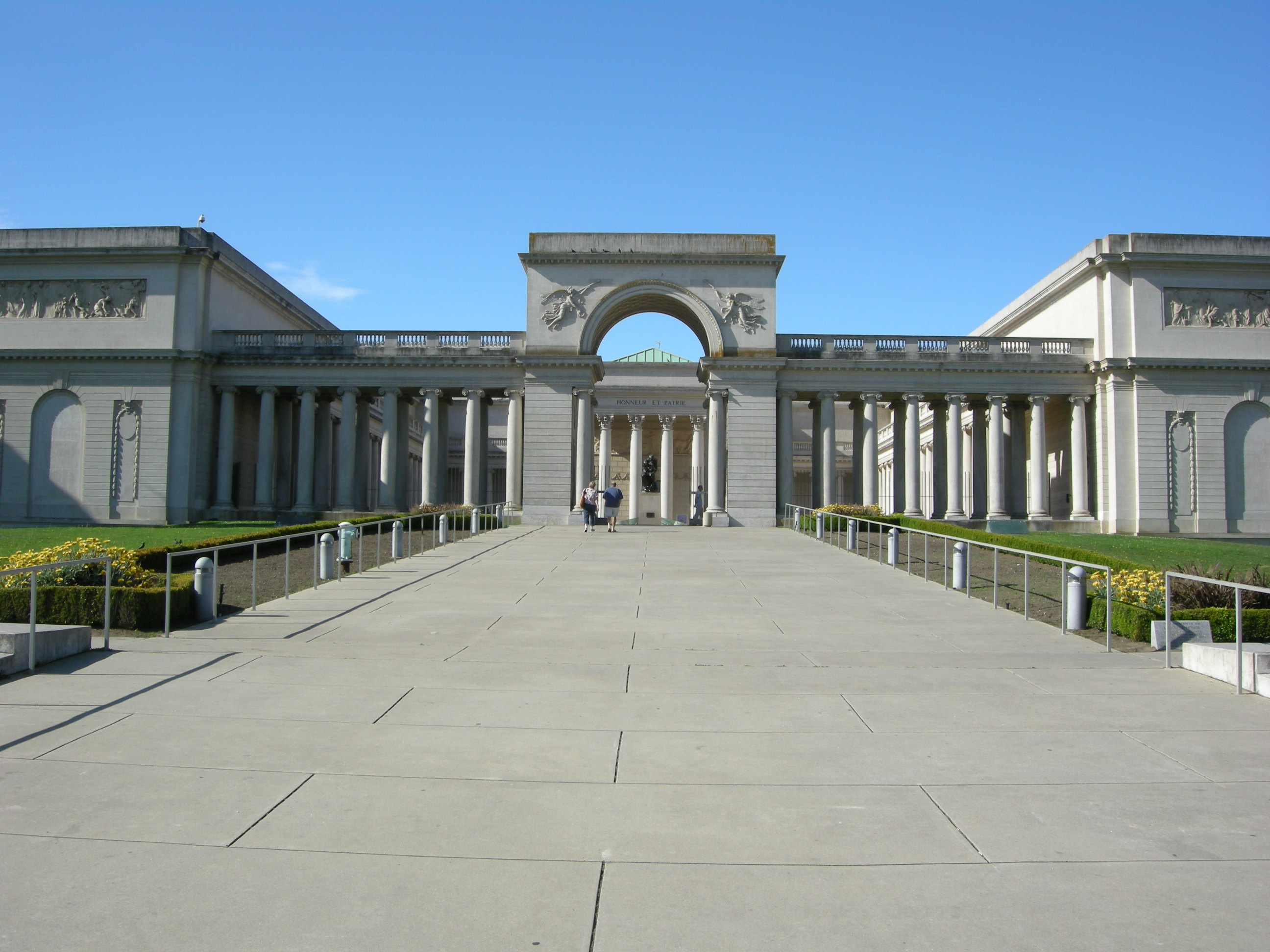 California Palace of the Legion of Honor museum entry, San Francisco, California.